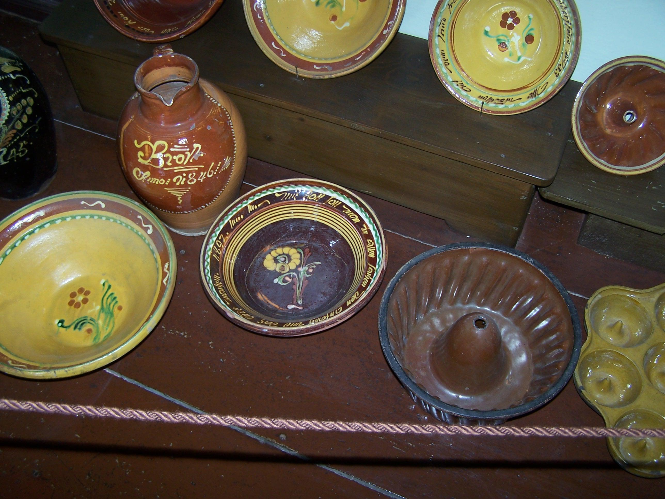 Traditional ceramic from the Werra pottery region.